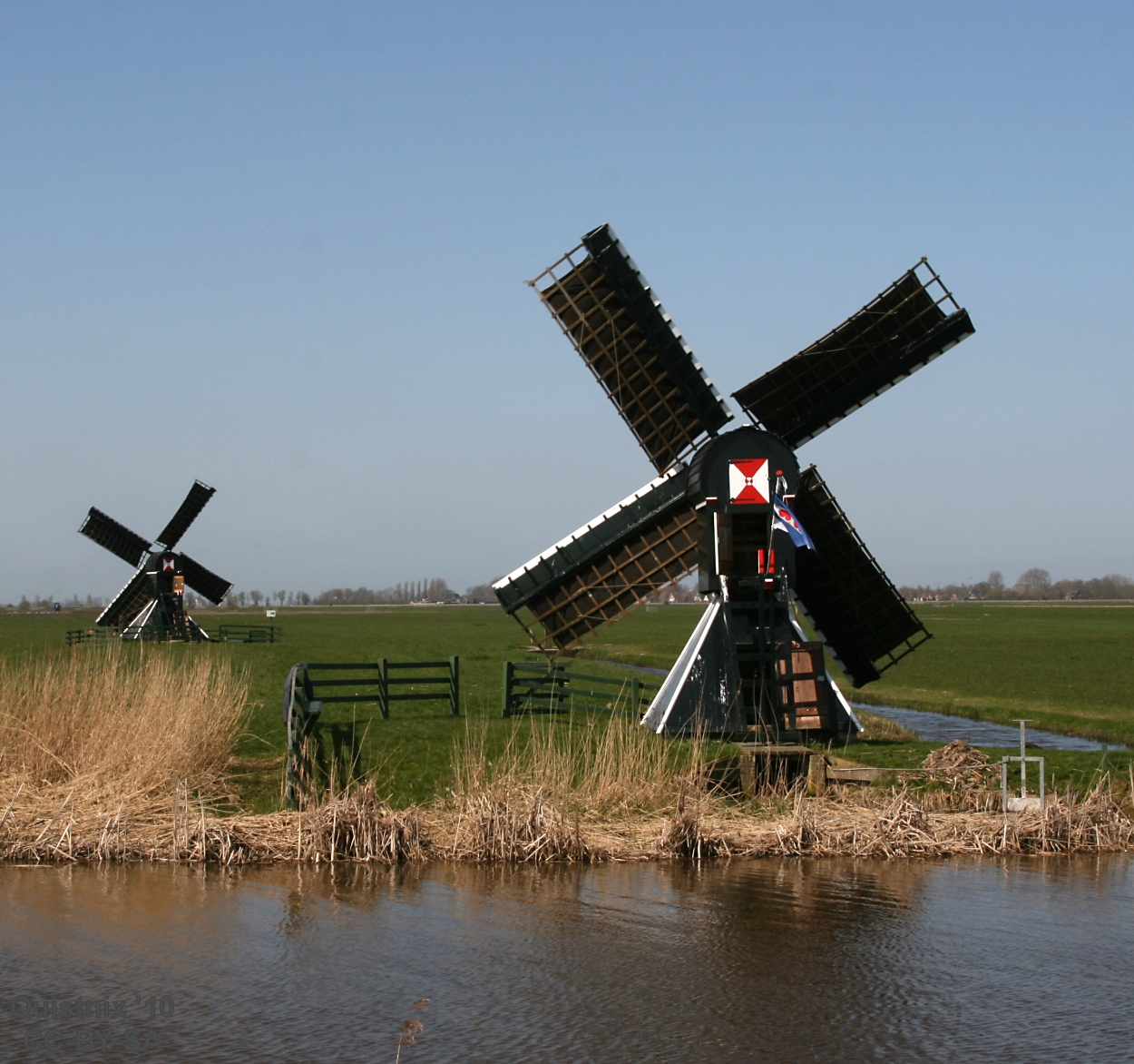 Goutum: Kramersmolen, working